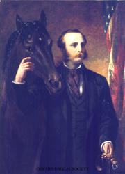 John S. Rarey and Cruiser Painting